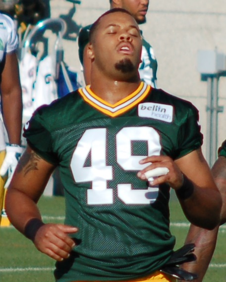 2015 Packers training camp